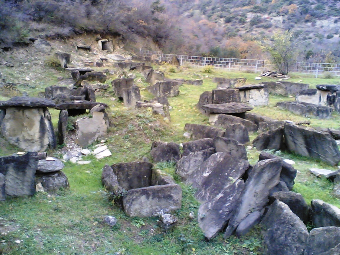 Ancient acropolis of Samtavro, Mtskheta, Georgia